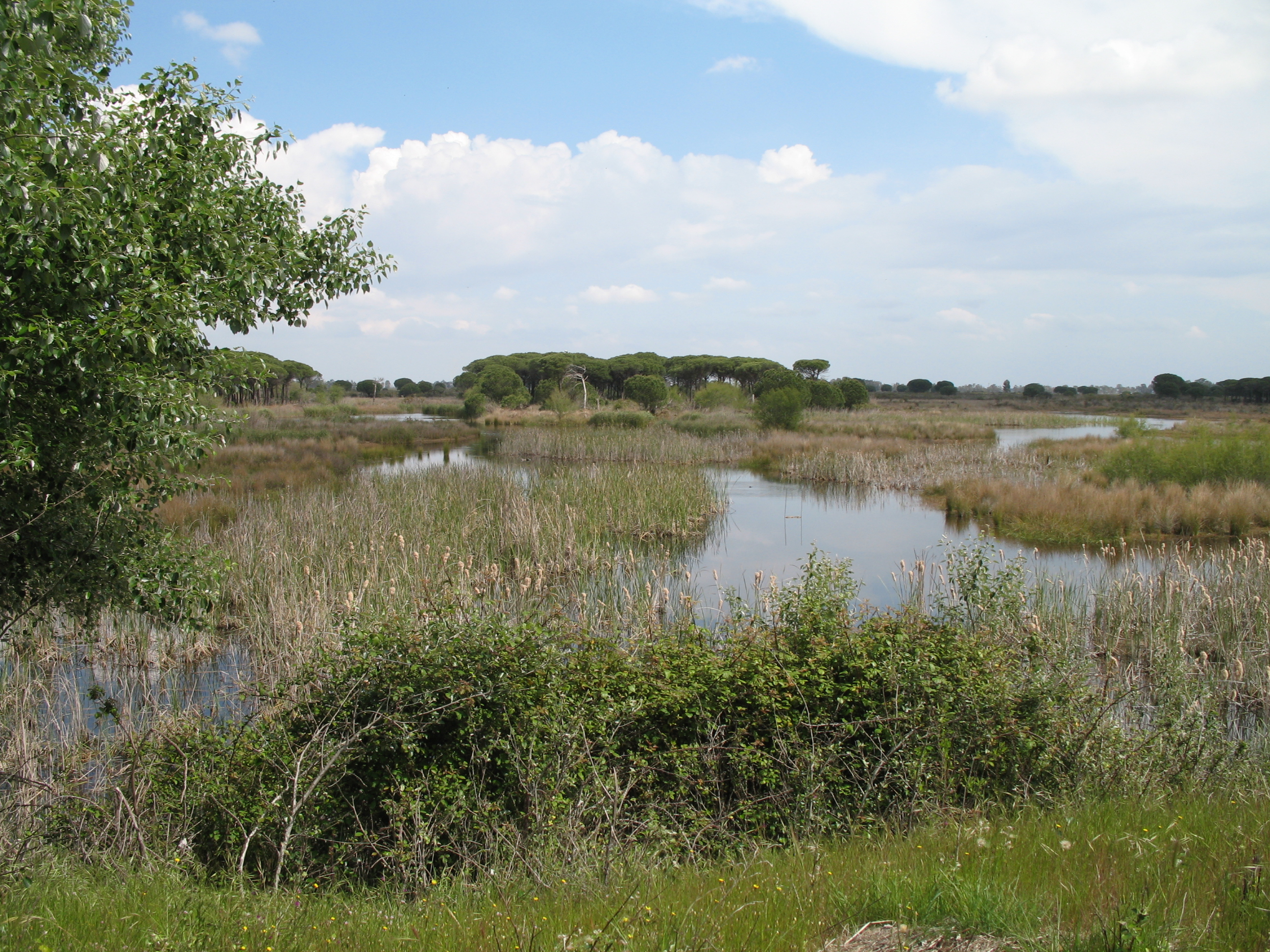 Doñana National Park, landscape near the Visitors' Centre 'El Acebuche' (Almonte, province of Huelva, Spain)